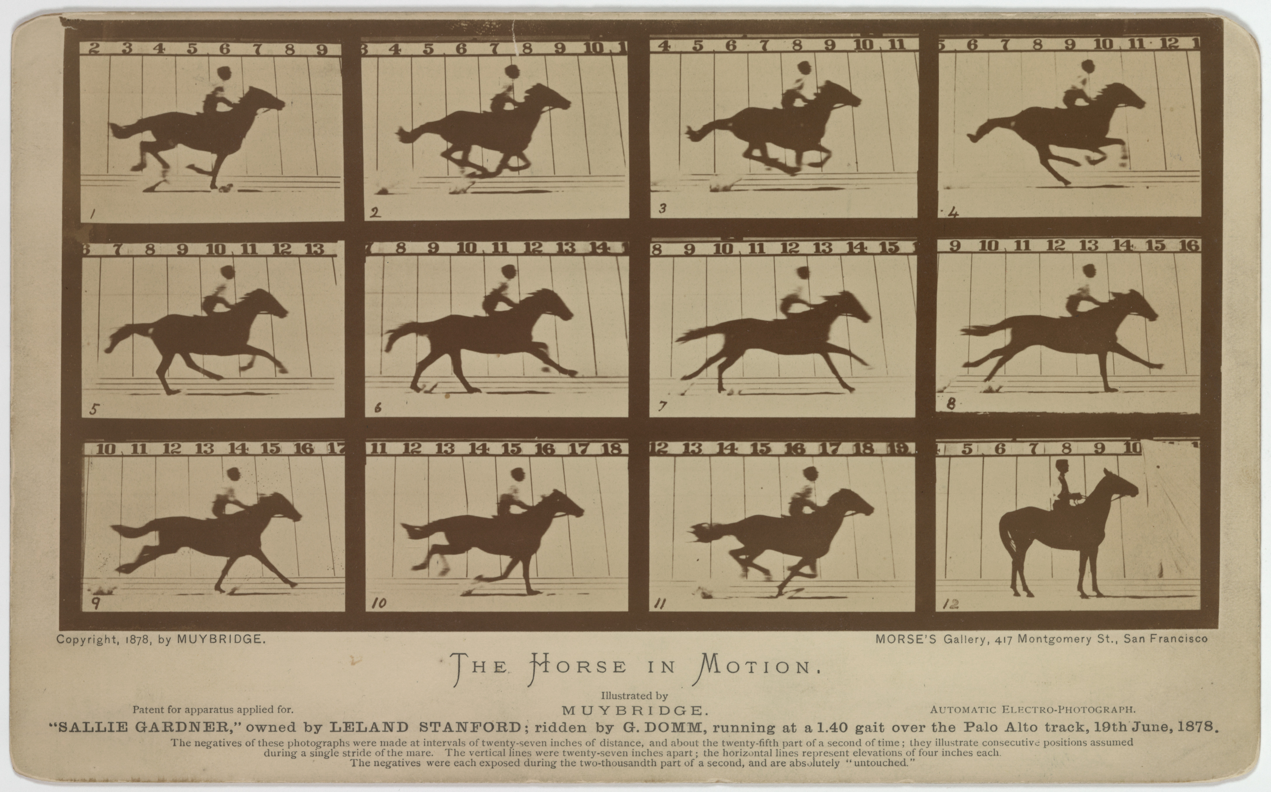 The Horse in Motion by Eadweard Muybridge. Noted photographer, Eadweard Muybridge was hired, in 1872, by Leland Stanford a railroad baron and future university founder, to find out if there was moment mid-stride where horses had all hooves off the ground. It took several years but Muybridge delivered having captured a horse, named "Sallie Gardner," owned by Stanford; running at a 1:40 gait over the Palo Alto track, on 19th June 1878. Muybridge used a dozen cameras all triggered one after another with a set of strings.